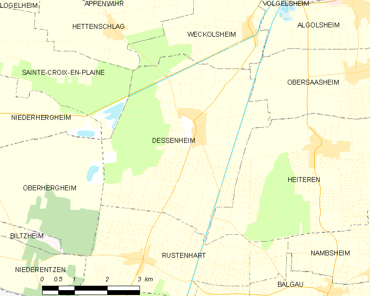 Map of French municipality